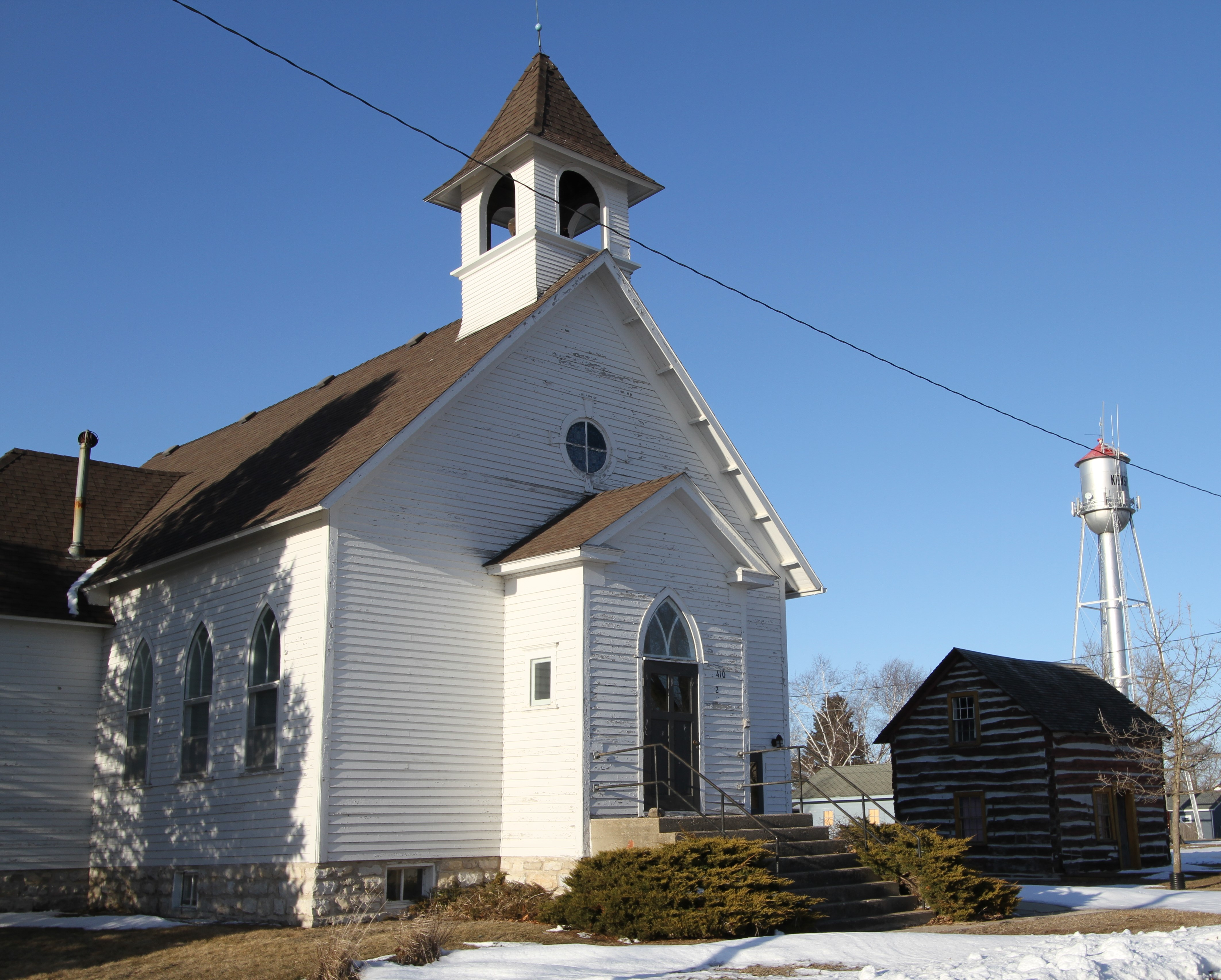 First Methodist Episcopal Church with the water tower in the background in Kensett, Iowa, United States